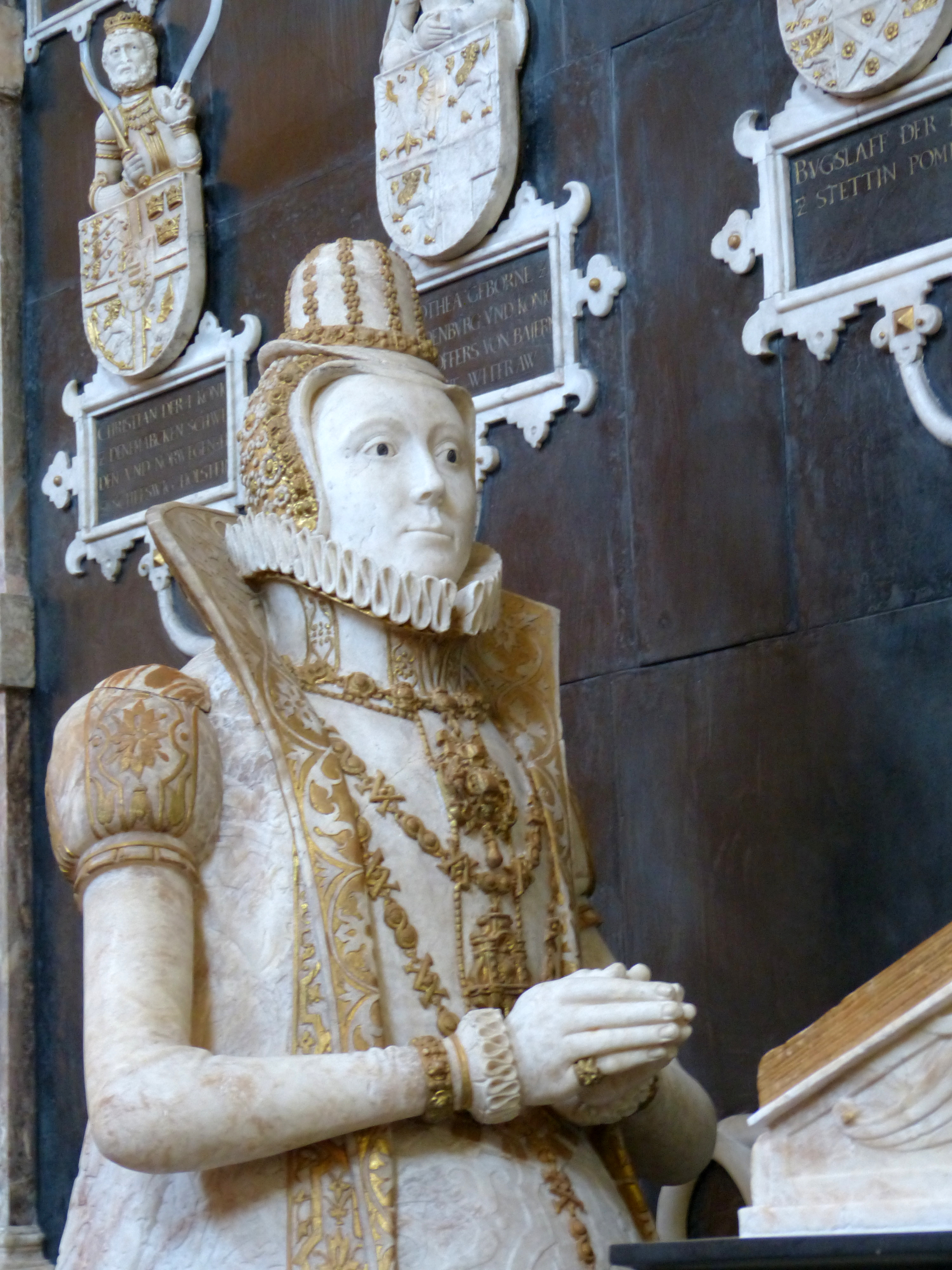 Güstrow ( Mecklenburg-Vorpommern ). Cathedral: Grave ( 1585 ) of Ulrich, Duke of Mecklenburg, by Philipp Brandin - Statue of Ulrich's first wife Elisabeth of Denmark.